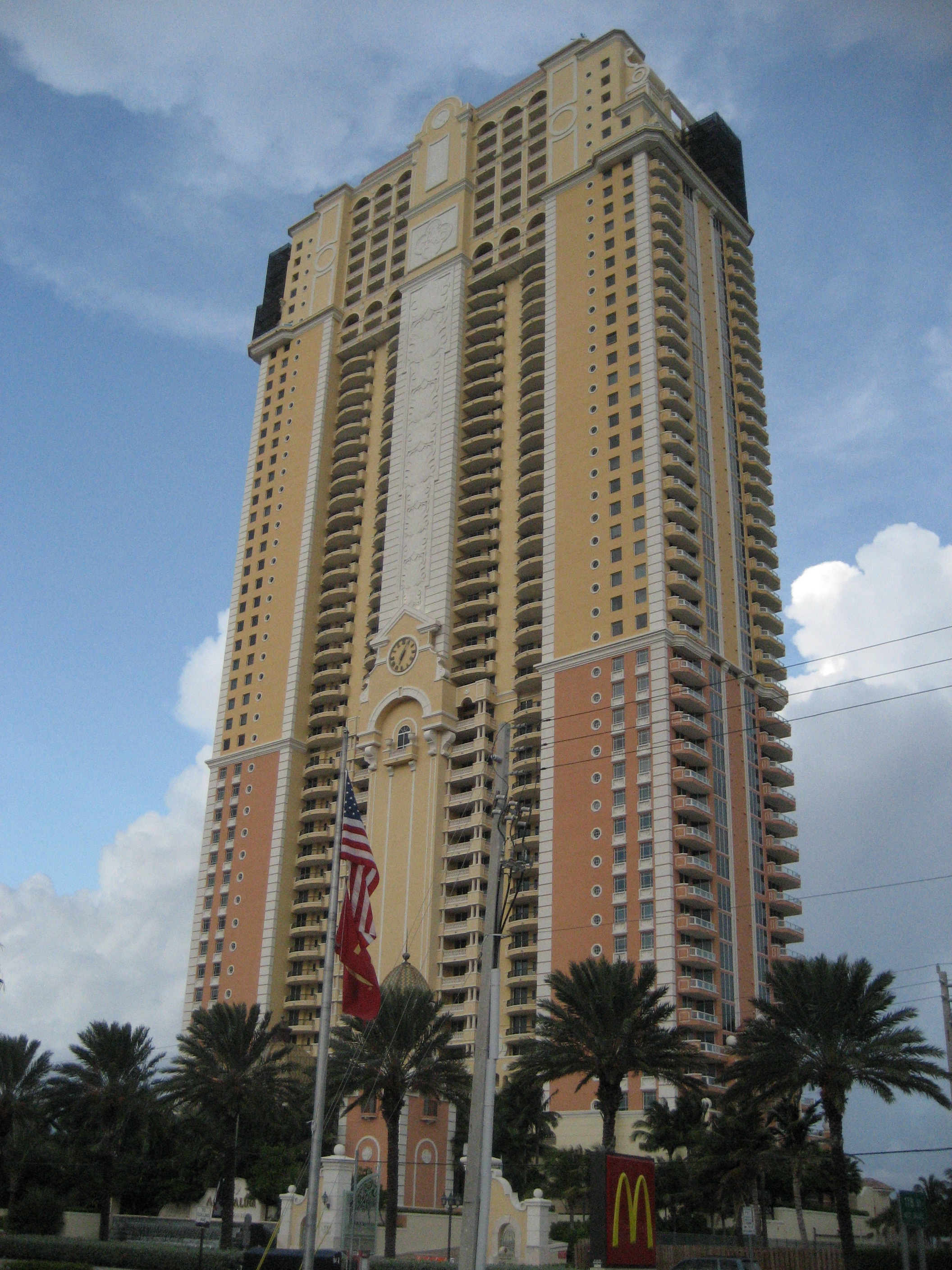 High rise building on A1A north of Miami Beach, Florida. The town of Sunny Isles, I think; it is near Wolfie's Rascal House restaurant.